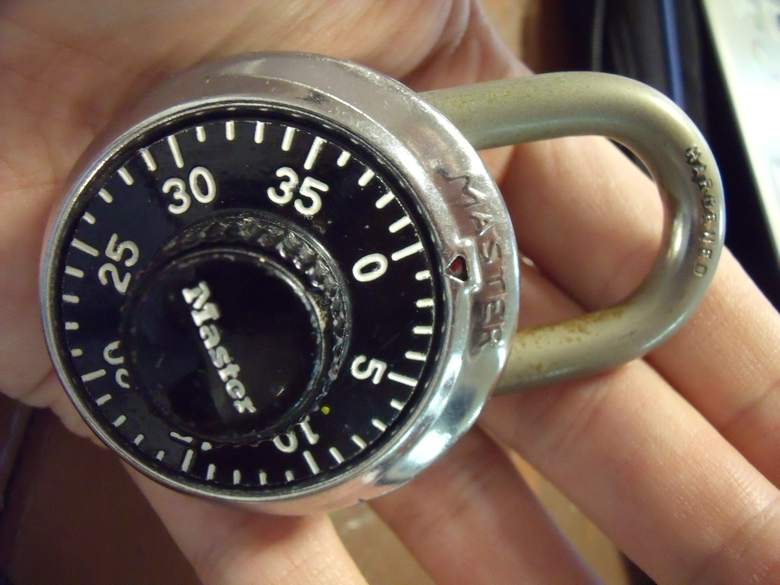 A combination lock.